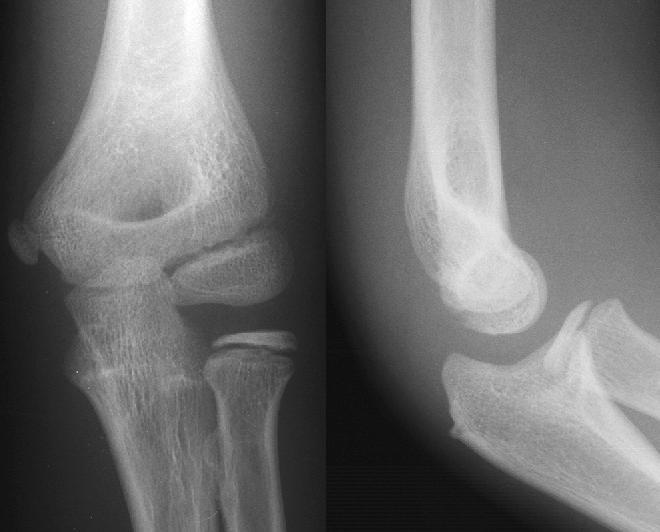 AP and Lateral of an Elbow. This demonstrates the technique of two views at 90Â° to each other.